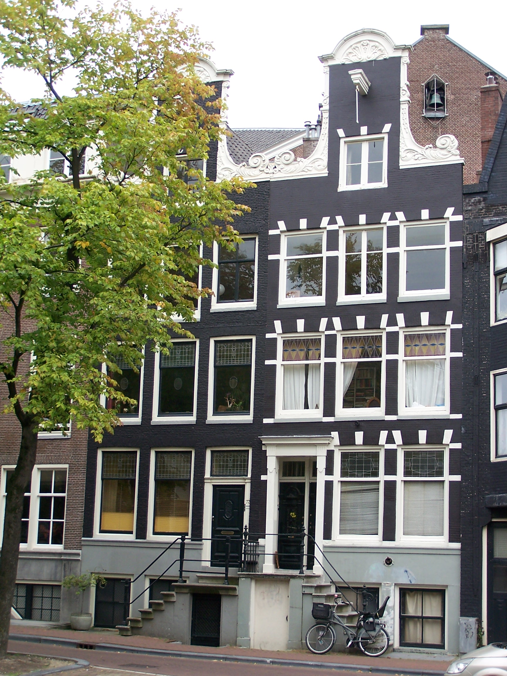 Reguliersgracht 73 & 75